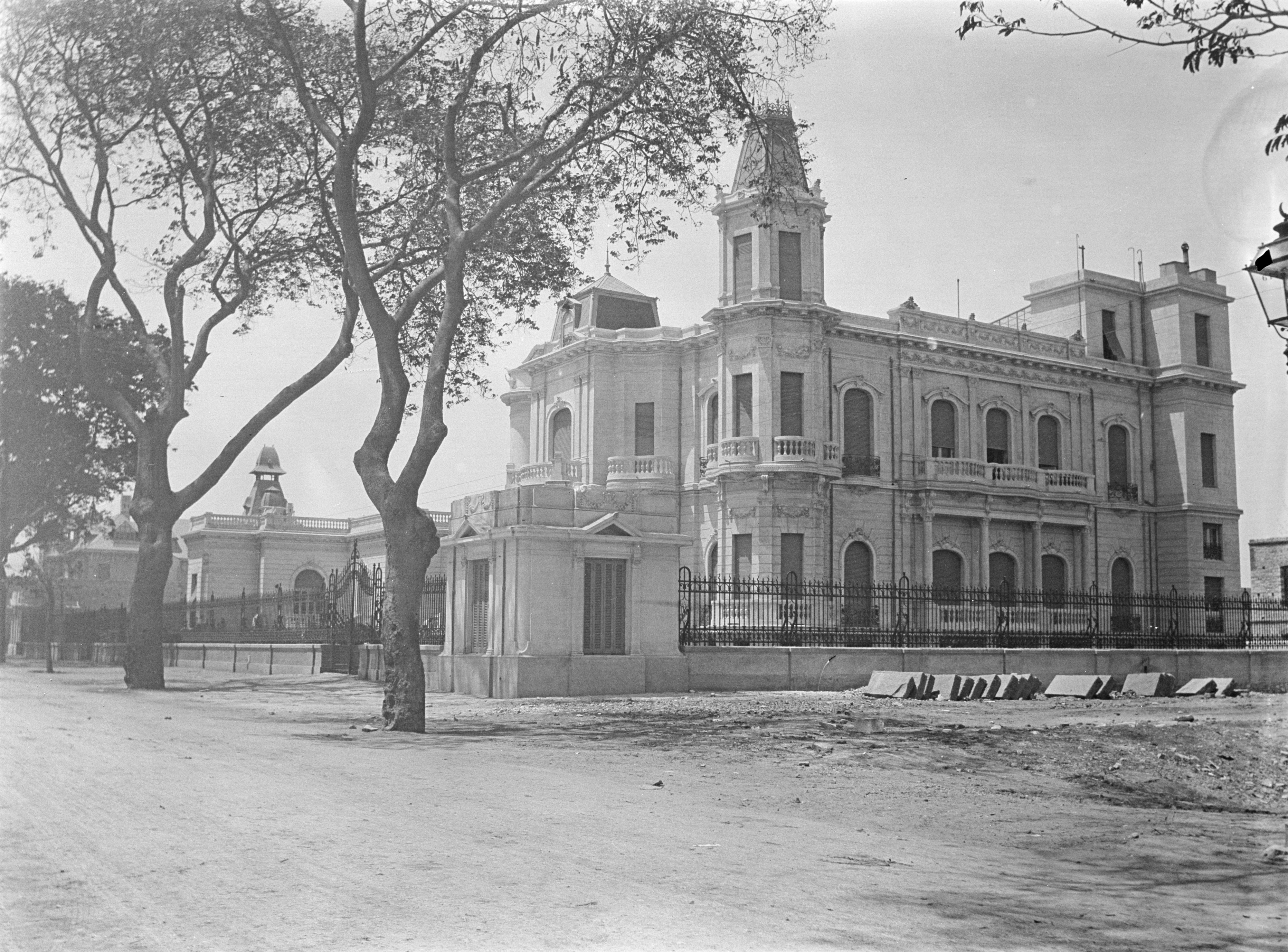 Probably Kristian Birkeland's villa in Helwan, Egypt. It have it's own specially built observatory.